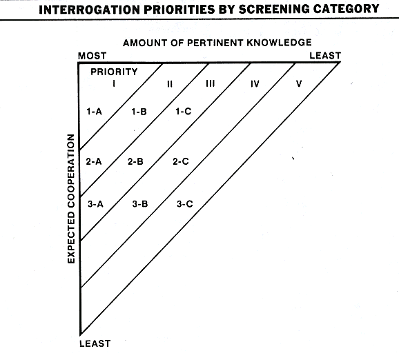 Copy of Chapter 3 interrogation priorities document